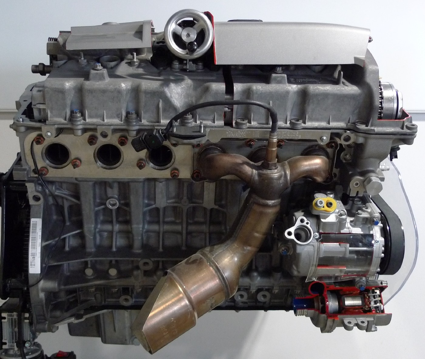 Sectional model of a BMW N52 engine, Institute of Applied Materials – Materials Science (IAM–WK), Karlsruhe Institute of Technology (KIT)